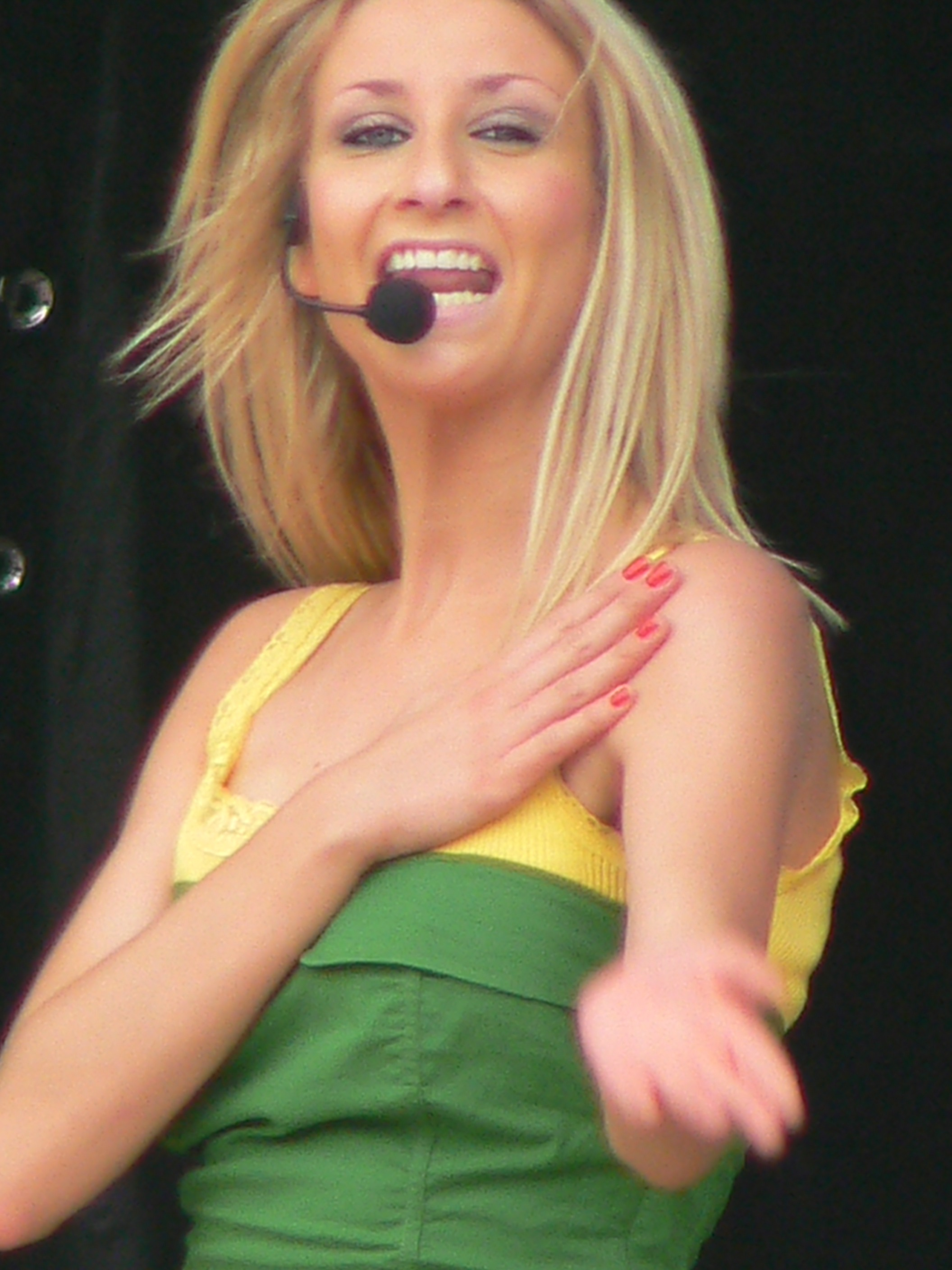 Befour - Alina